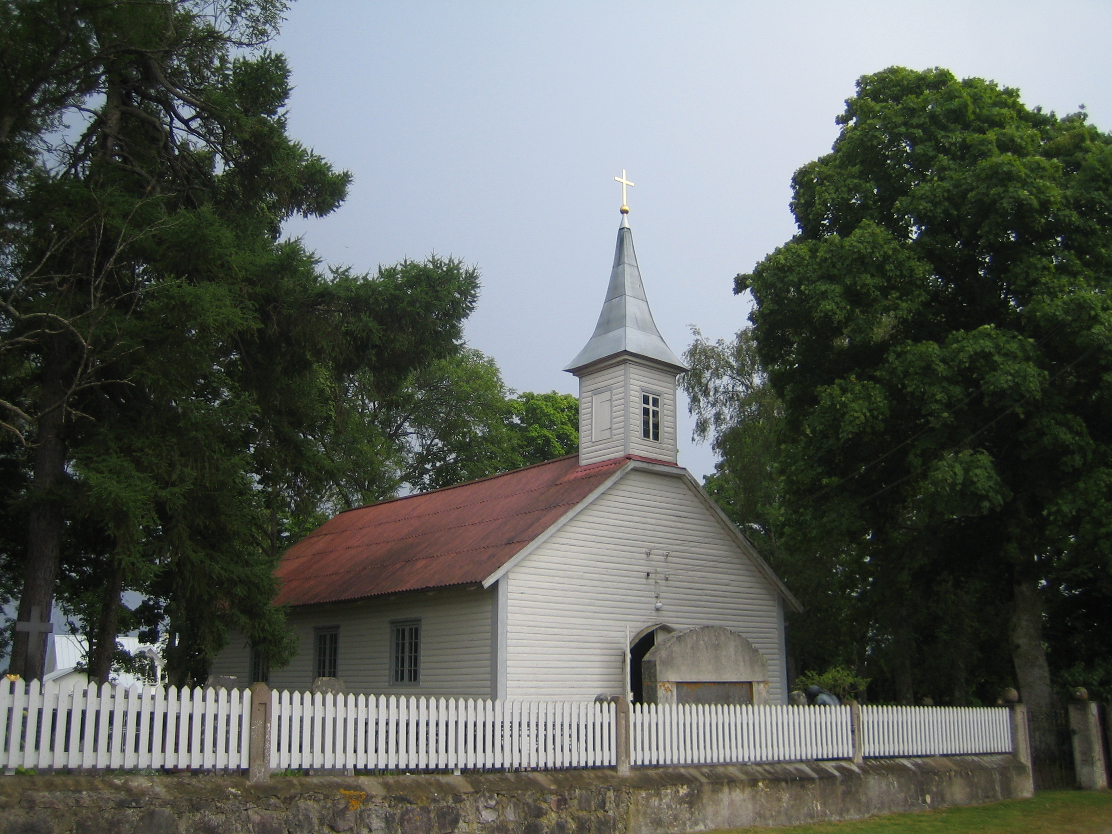 Käsmu Church